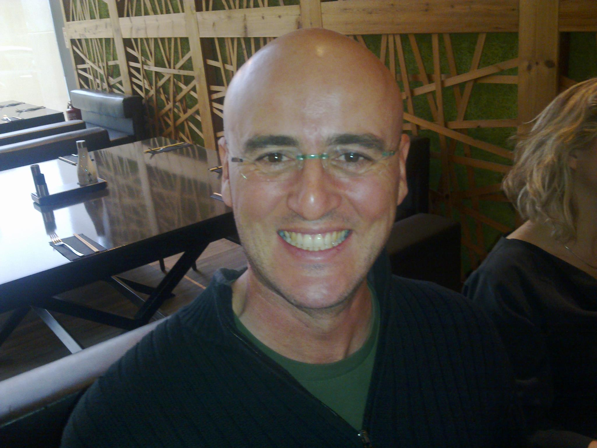 Danny Sirkin